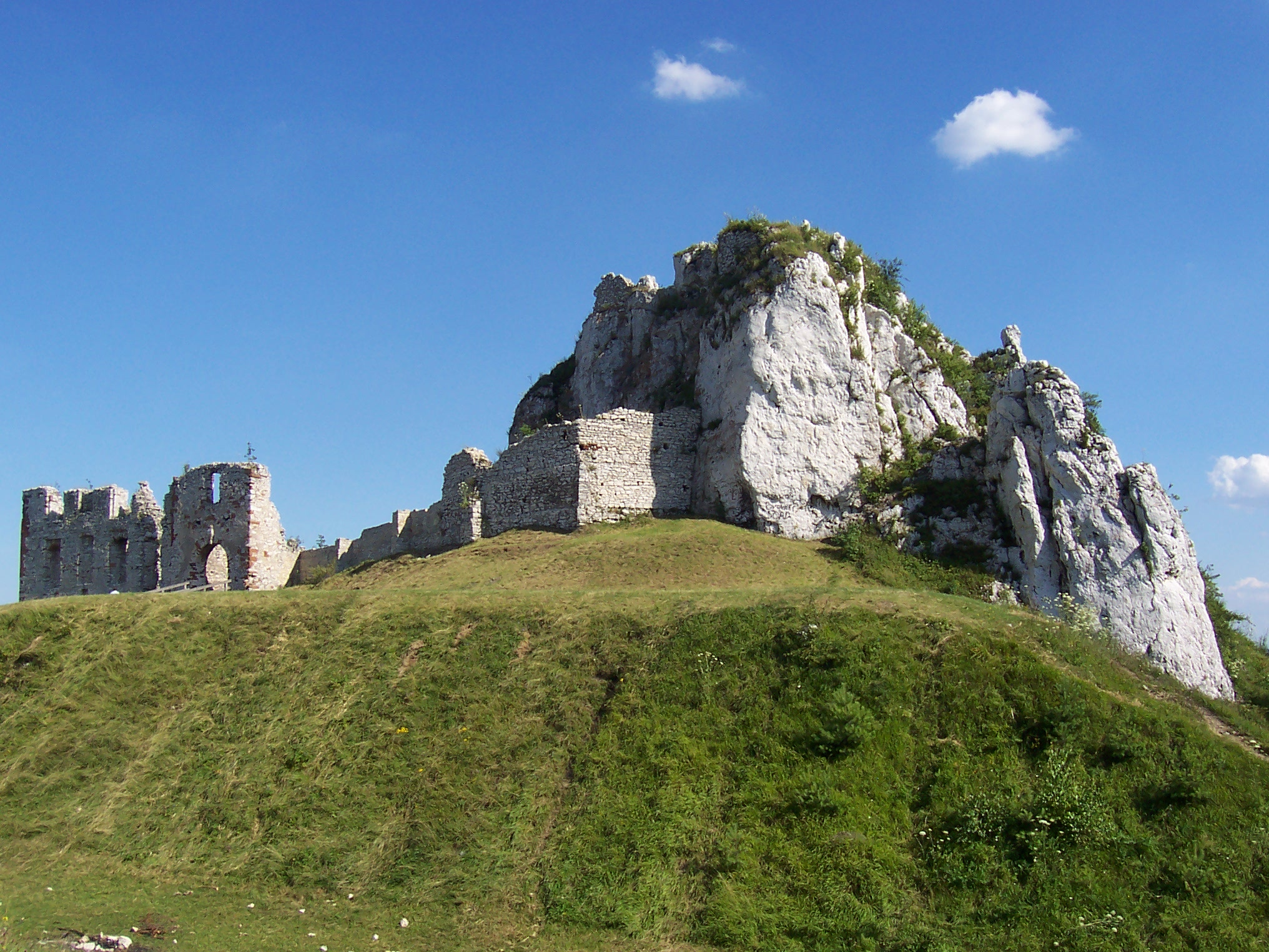 Castle in Rabsztyn/Poland